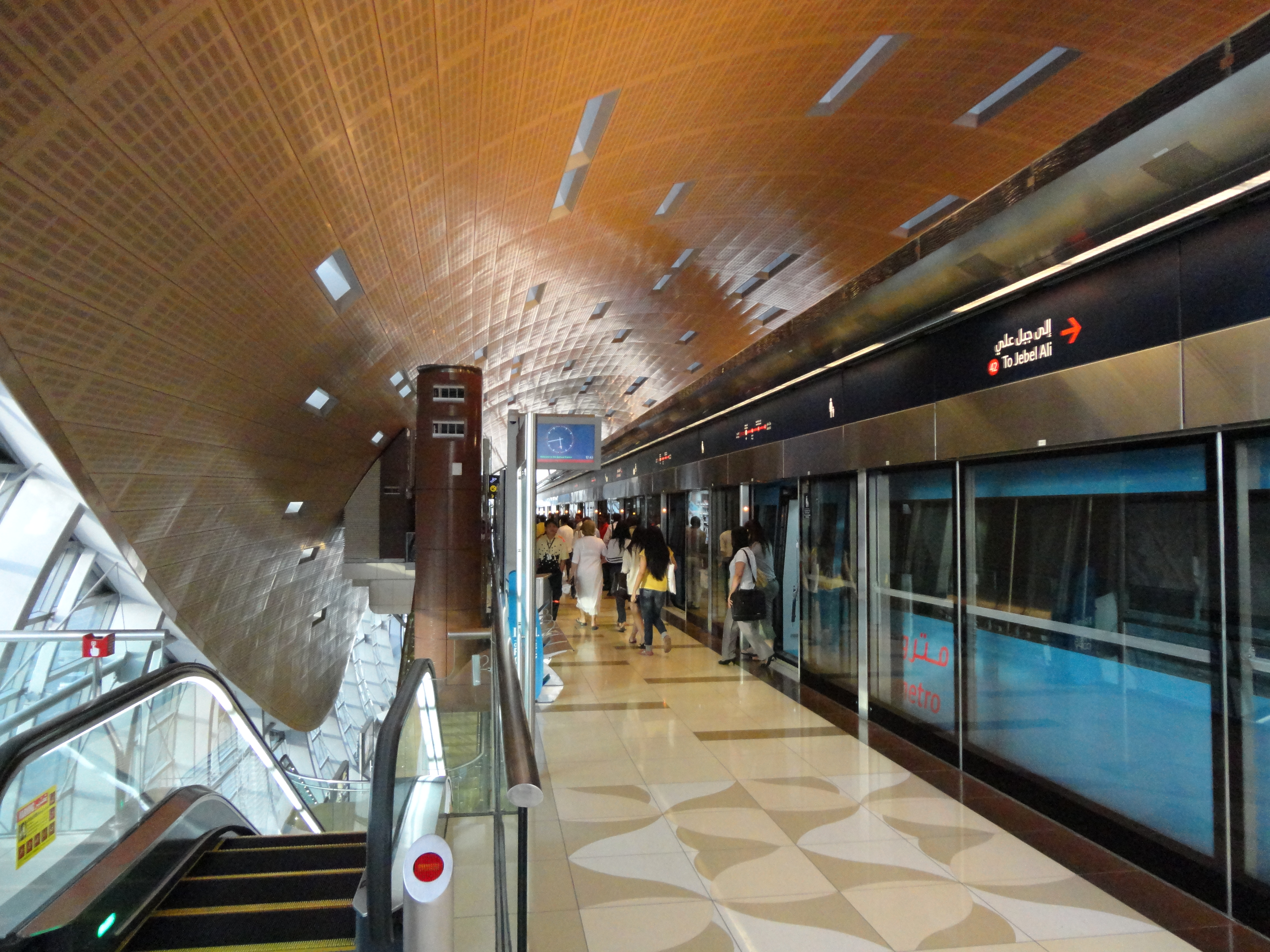 dubai metro Ibn Battuta Mall station